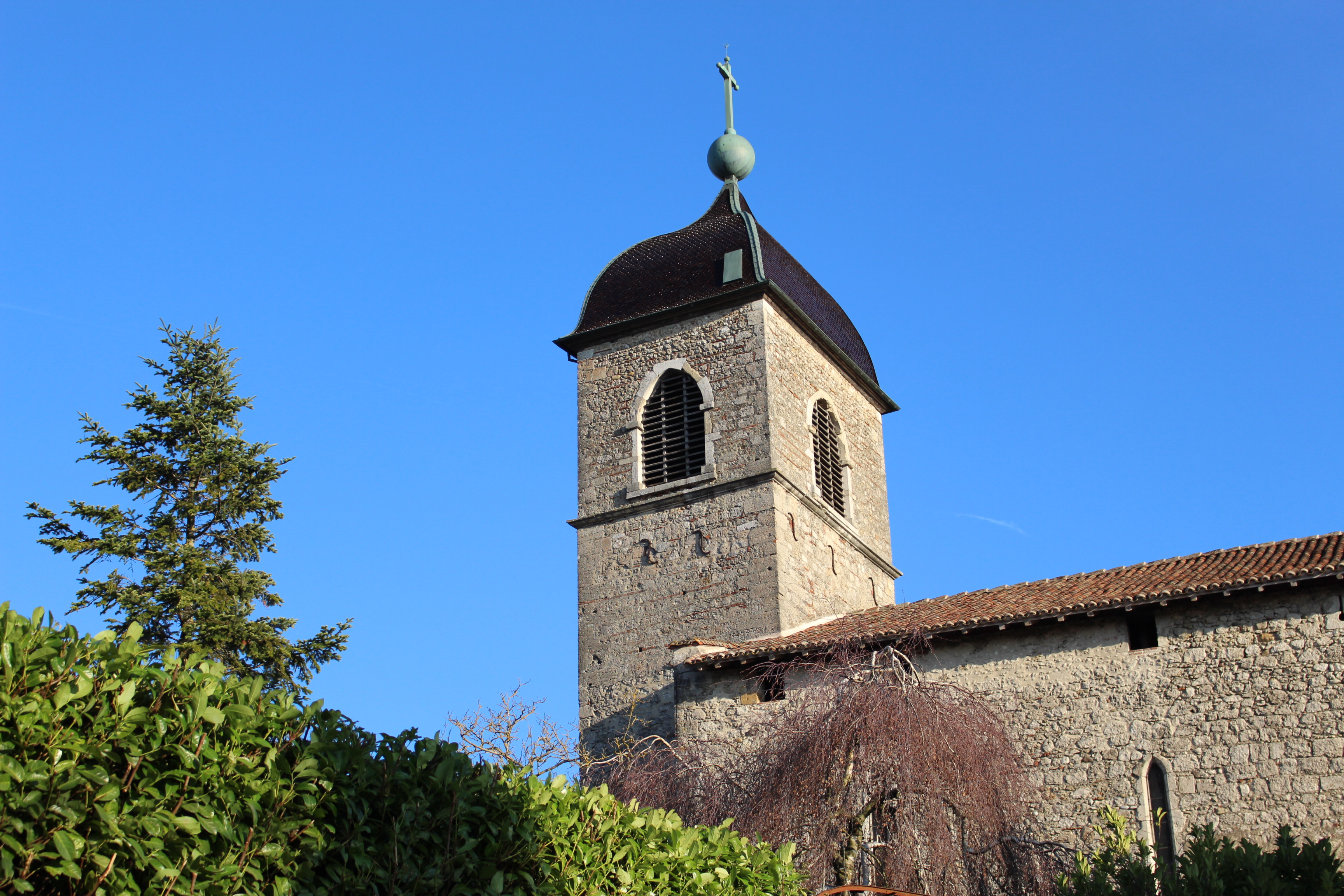 The Church of Pérouges (Ain, France).